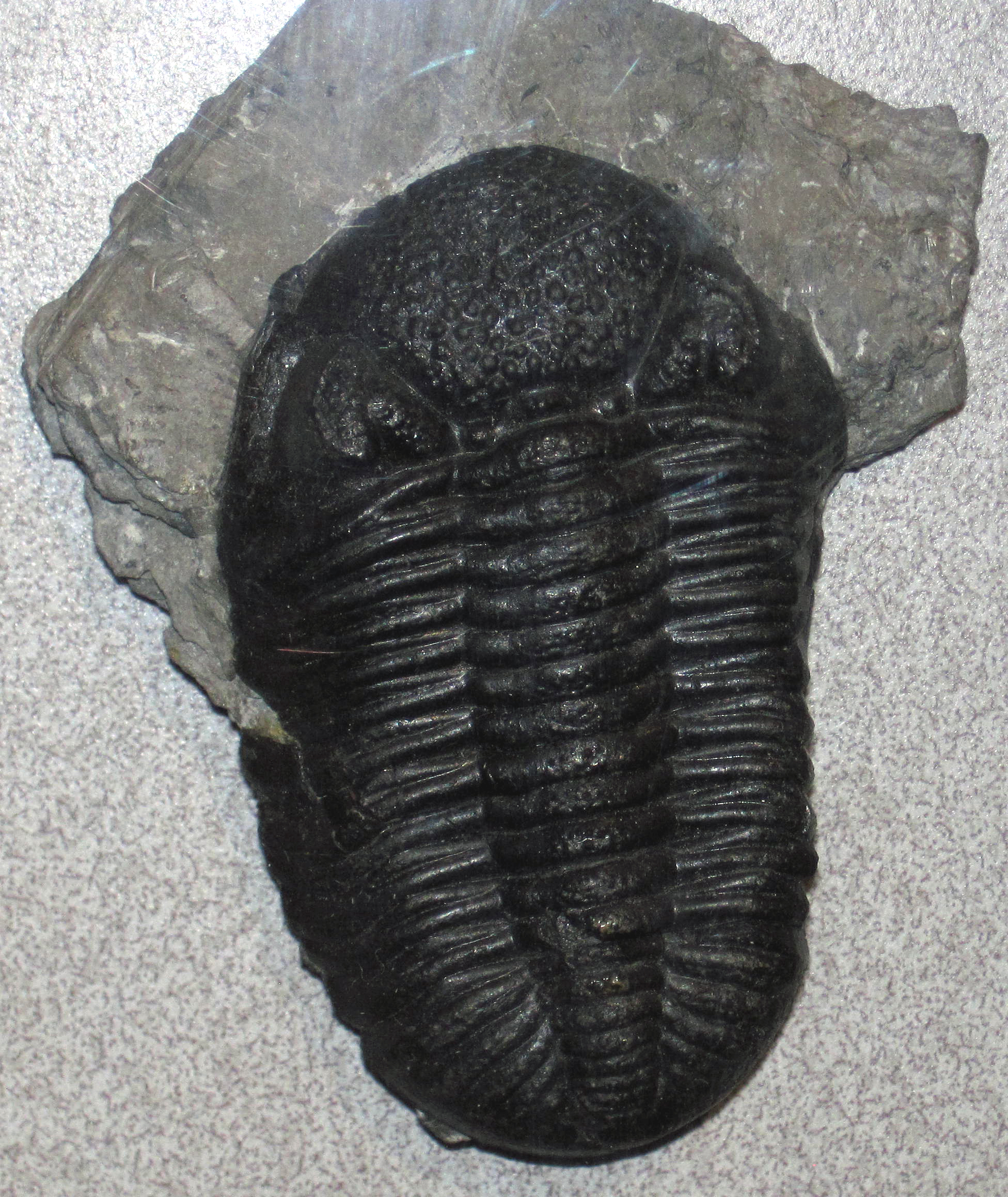 Phacops rana (Green, 1832) fossil trilobite from the Devonian of Ohio, USA (public display, CMNH 4570, Cleveland Museum of Natural History, Cleveland, Ohio, USA). Here's a famous trilobite species whose remains are relatively common in the Middle Devonian-aged Silica Formation of northeastern Ohio. This is Phacops rana (Green, 1832) (some place the species in "Eldredgeops", an unnecessary name based on insufficiently justified genus-level taxonomic splitting). Phacops trilobite fossils occur with other typical Middle Paleozoic shallow marine invertebrates: brachiopods, bryozoans, crinoids, and corals. Classification: Animalia, Arthropoda, Trilobita, Polymerida, Phacopidae Stratigraphy: Silica Formation (Silica Shale), Middle Devonian Locality: quarry in Sylvania, northeastern Ohio, USA